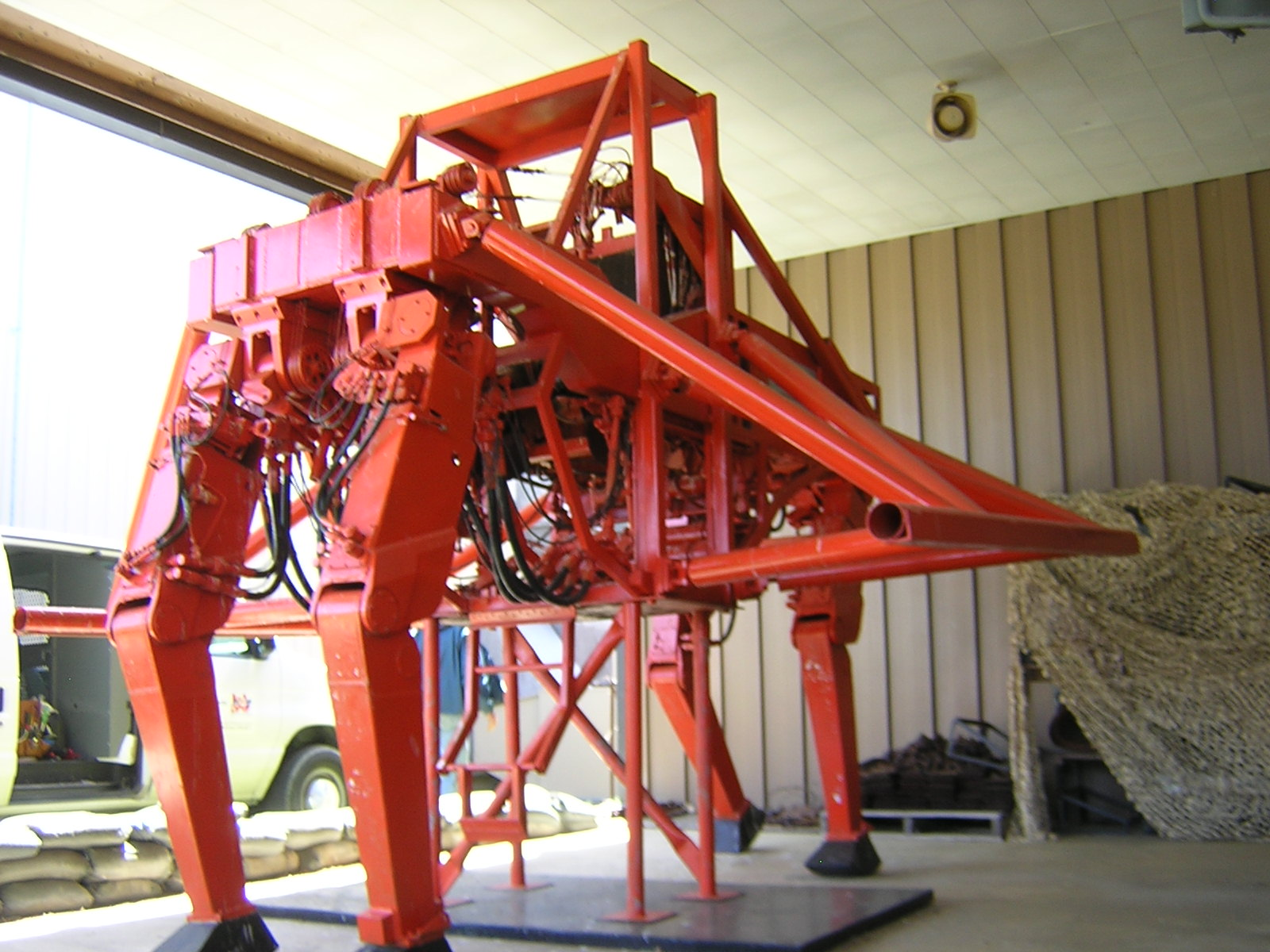 A quadraped walker in the covered outdoor display area at the U.S. Army Transportation Museum, Fort Eustis, Virginia This exhibit is located at the N end of the indoor exhibits area (E on map, see key).